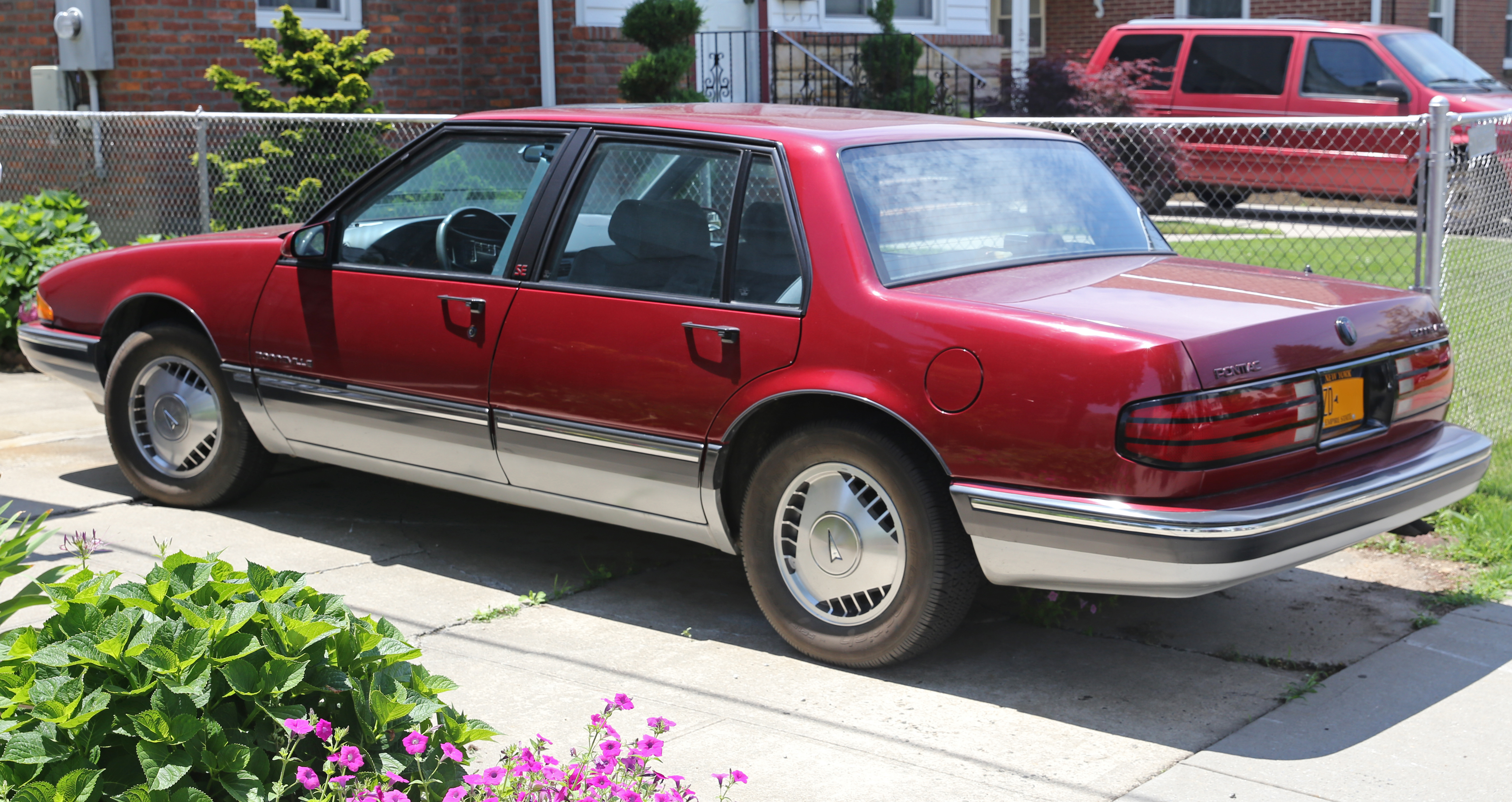 A 1987 Pontiac Bonneville SE. The SE-package was a sportier version based on the LE, including distinctive alloy wheels, tighter suspension and lower gearing as well as other goodies. Fuel injected 3.8-liter V6, assembled in Willow Run, MI.